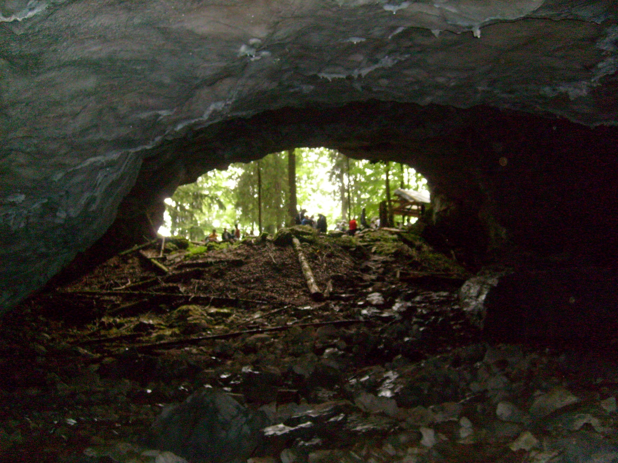 Portal of the Vartop Cave.